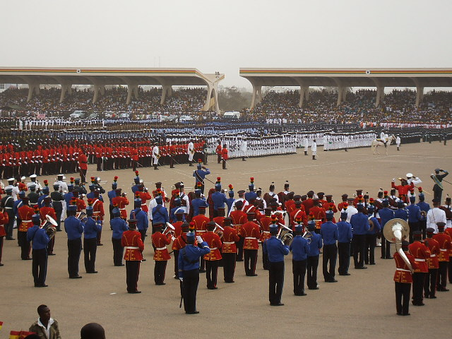 Ghana 50th Anniversary. Indep, Christiansbourg, Accra.